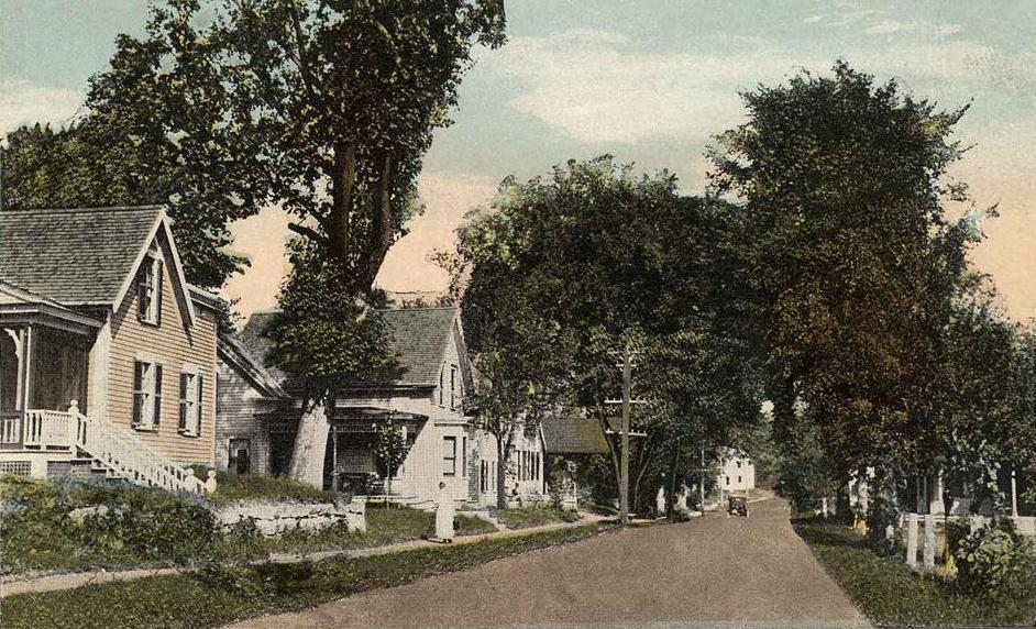 Plymouth Street, looking north, Meredith, New Hampshire; from a c. 1920 postcard published by the Valentine Souvenir Company, New York.